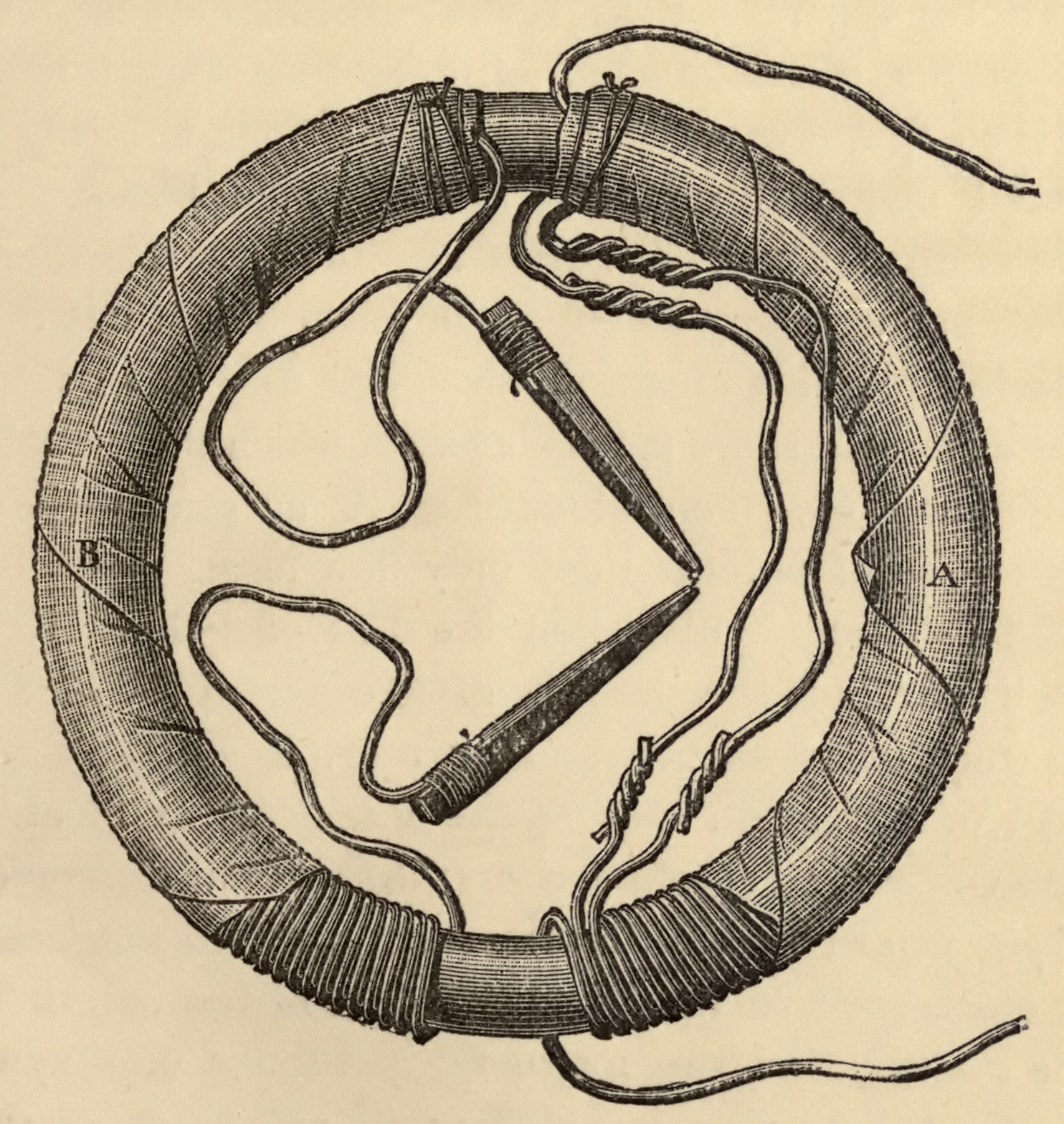 Drawing of the first transformer, built by British scientist Michael Faraday in the 1830s. It consisted of an iron ring with two windings of insulated wire around it. Faraday attached one winding to a sensitive galvanometer. When he touched the other winding to a single cell battery, the winding created a changing magnetic field in the ring which induced a momentary current in the second winding due to electromagnetic induction, which was registered by the galvanometer. Although this device looks remarkably like a modern transformer, Faraday is not considered the inventor of the transformer. He only applied individual pulses of current to his device, not the alternating current that allows modern transformers to work continuously. More importantly the device had the same number of turns on both windings. Faraday did not discover the principle that makes transformers useful - that it can be used to transform the voltage up or down by using different numbers of turns in the seconday than in the primary winding.